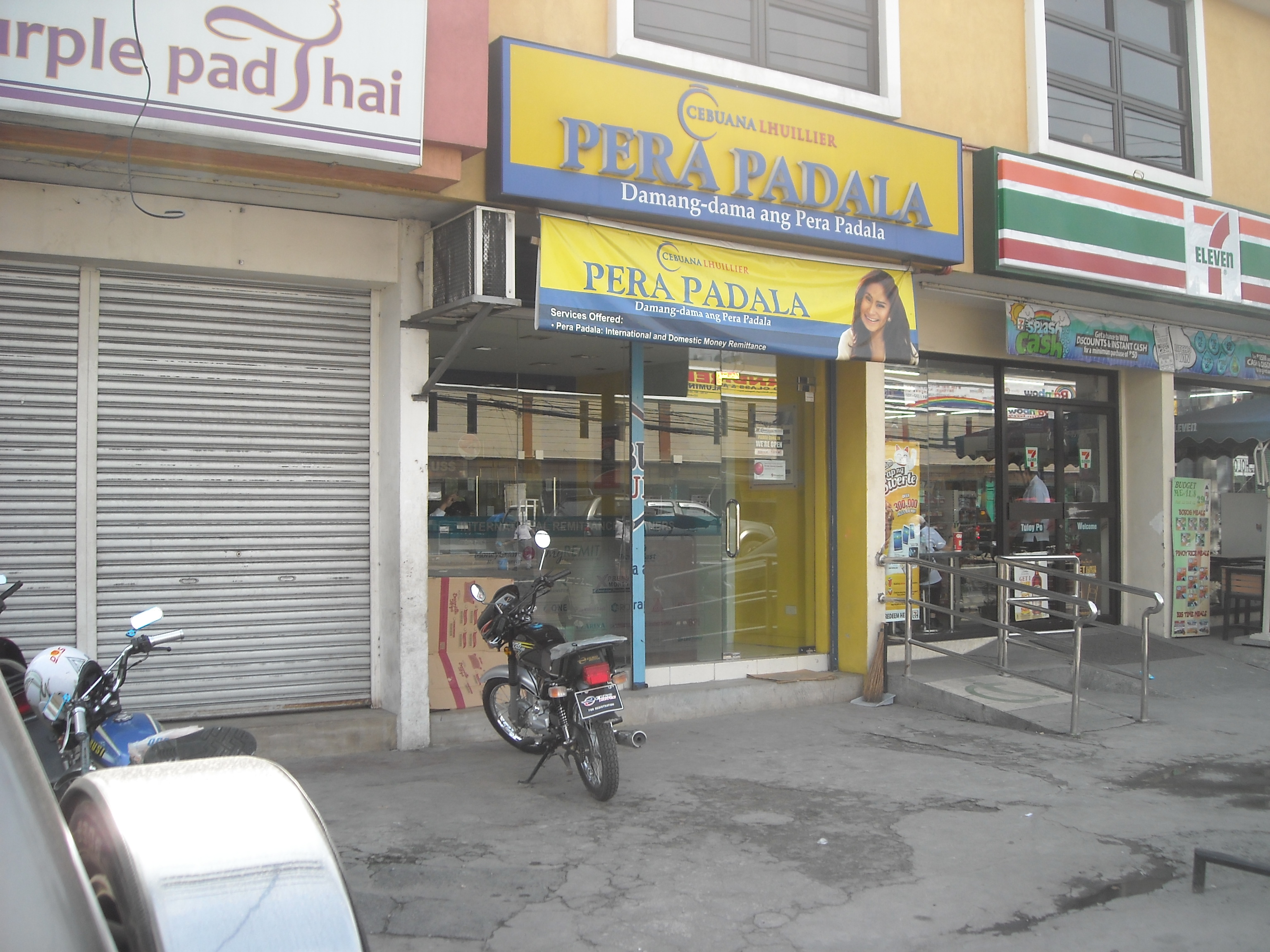 A typical Cebuana Lhuillier branch along Mc Arthur highway in Angeles City.